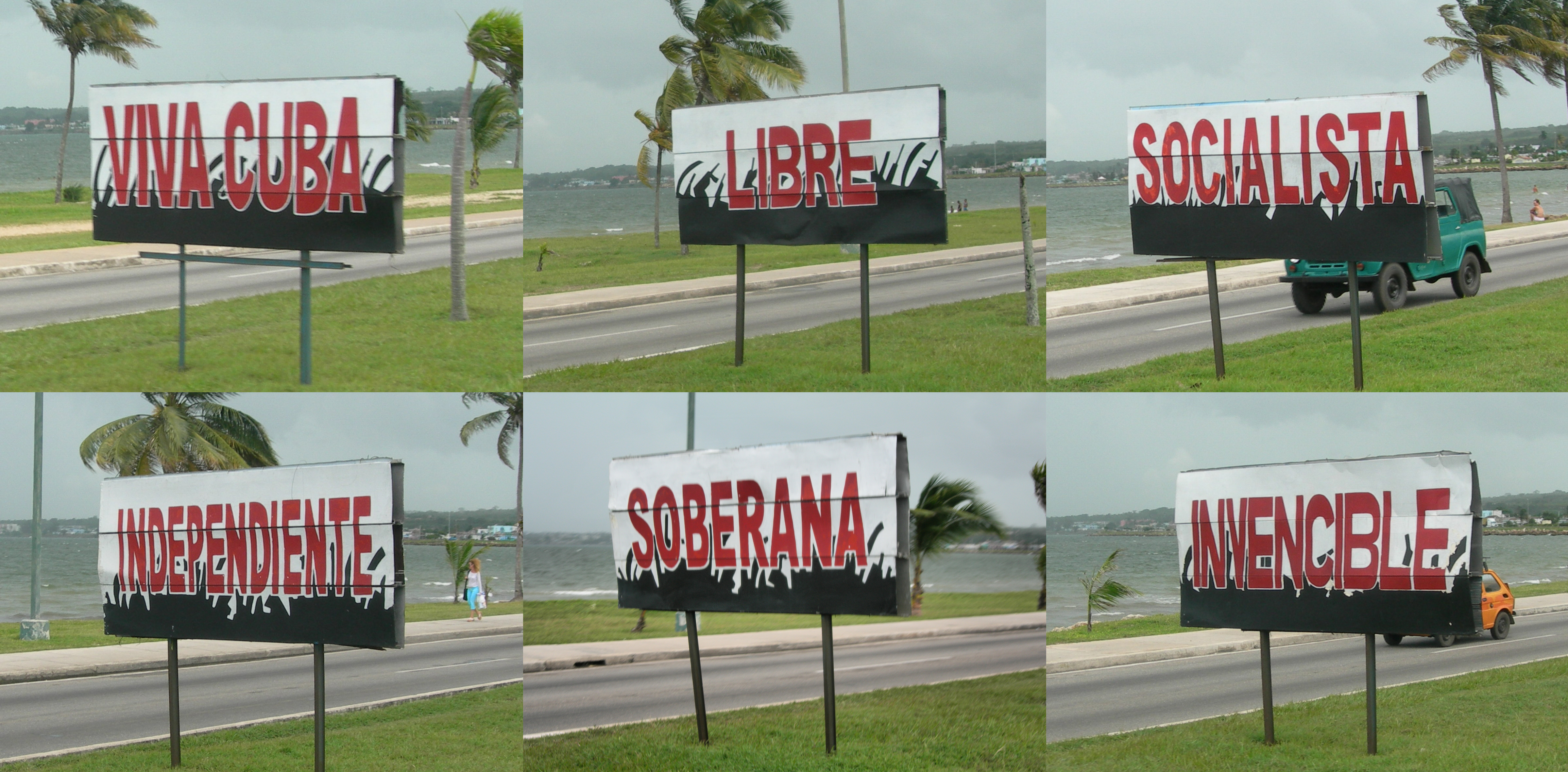 Photographic mosaic of political propaganda posters at Matanzas City bay (Cuba).